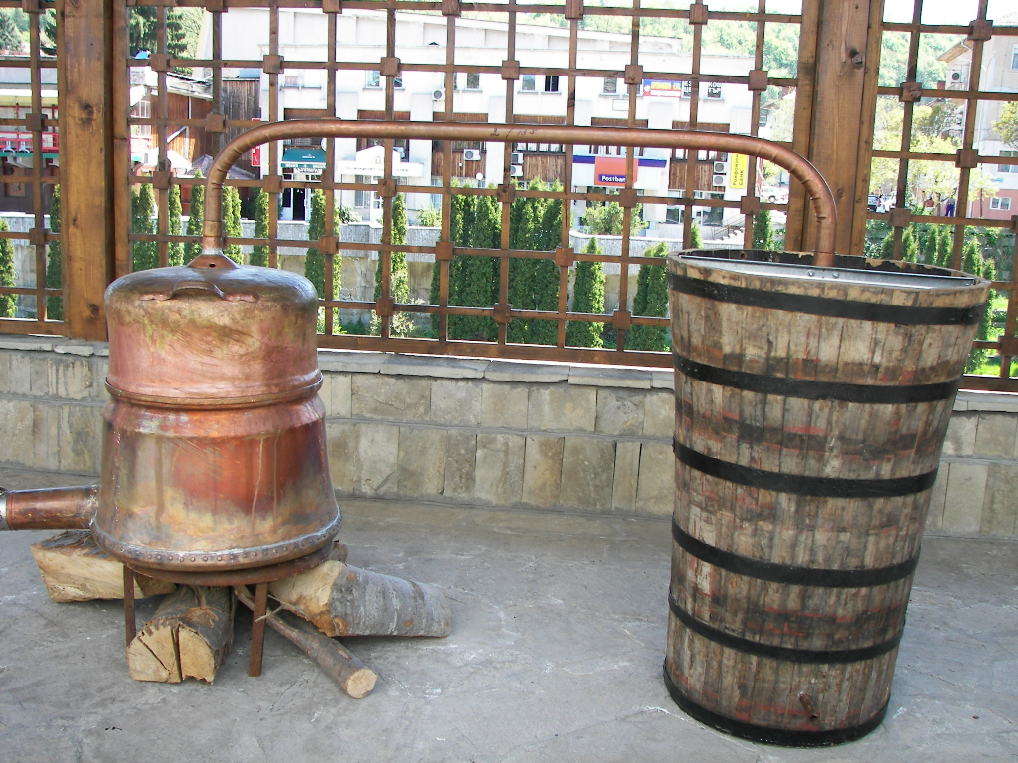 Rakia Model installation in the town Troyan in Bulgaria.